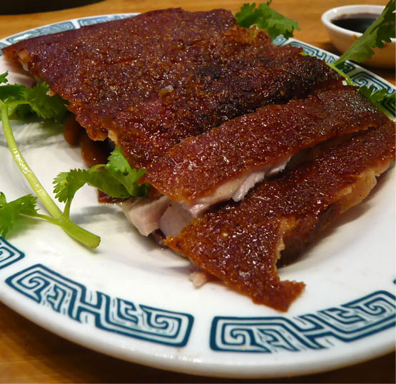 Roasted Pig